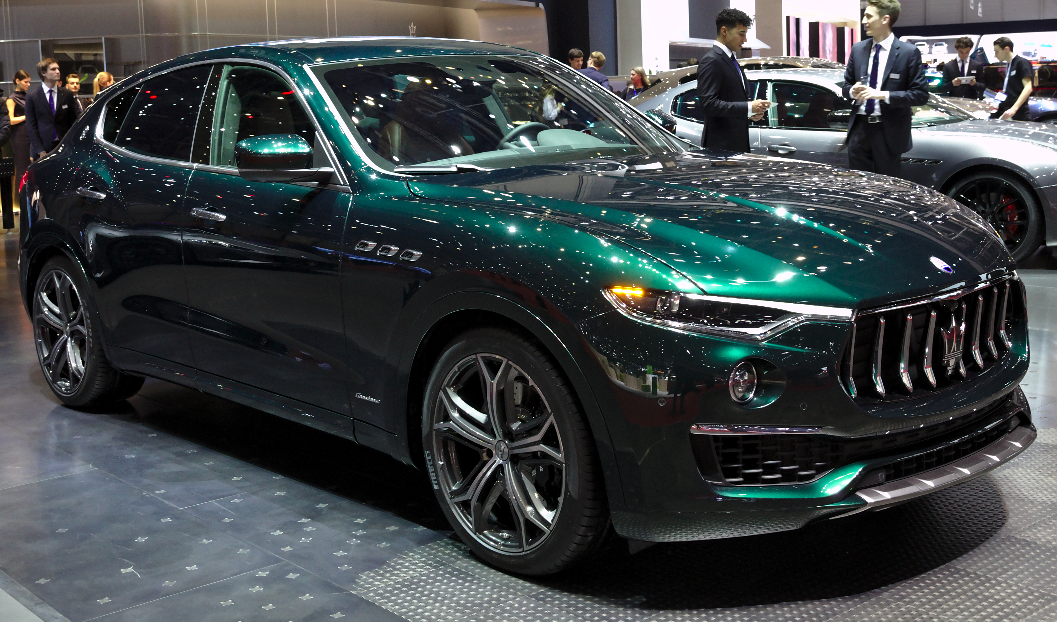 Maserati Levante Allegro Antinori One of One at Geneva Motor Show 2019